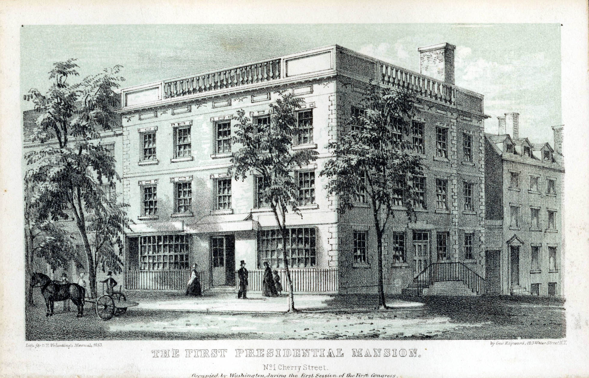 The First Presidential Mansion." Lithograph.